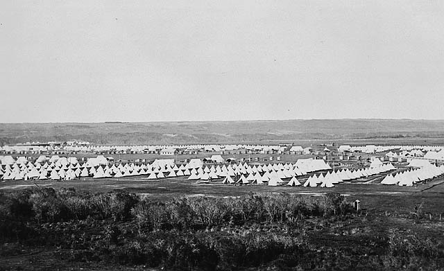 Sarcee Camp, Military District No. 13 1915 / Calgary, Alta. — 1 item — 88 x 139 mm REFERENCE NUMBERS: ACCESSION: 1955-082 REPRODUCTION: PA-147485 (copy negative number); CONSULTATION/REPRODUCTION: Graphics: photos Restrictions on access: Nil USE/REPRODUCTION: Restrictions on use/reproduction: Nil Copyright: Expired Credit: Library and Archives Canada / PA-147485 ADDITIONAL INFORMATION: 21C gelatine print (Phototype) 65 Postcards (Format) 4826 (Location number) CREATORS: Unknown SUBJECT HEADINGS: Mil. - Camps - 1915 Alta. - Calgary - Parts